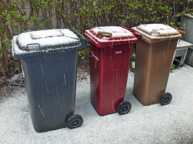 April Hailstorm The evening tv news reported that some nearby locations had experienced hailstones of up to 15mm diameter.